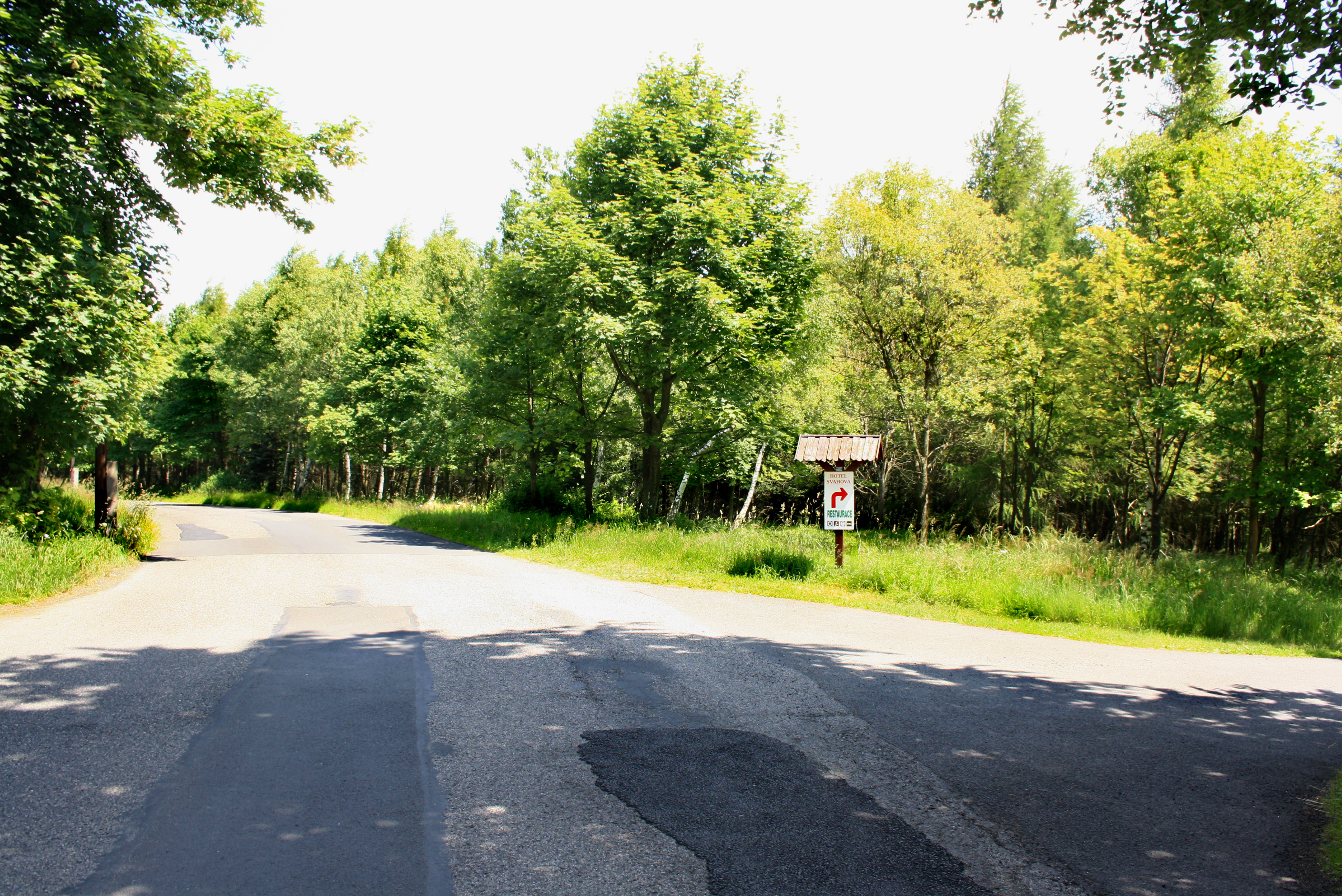 Intersection at Svahová village, part of Boleboř, Czech Republic